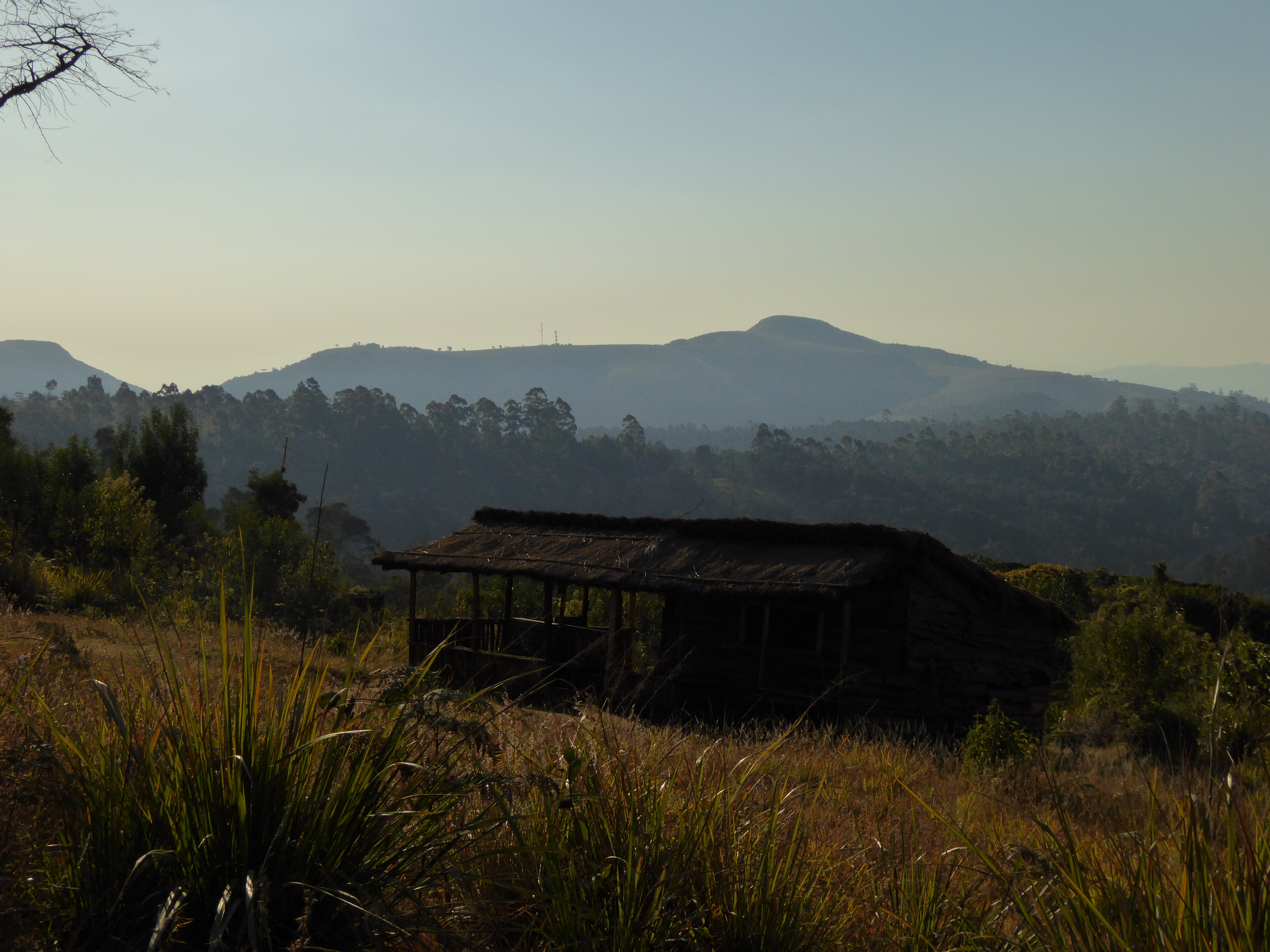 Hut on Bvumba Mountains.